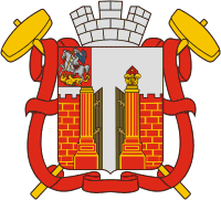 Vereya (Moscow oblast), coat of arms (1883)